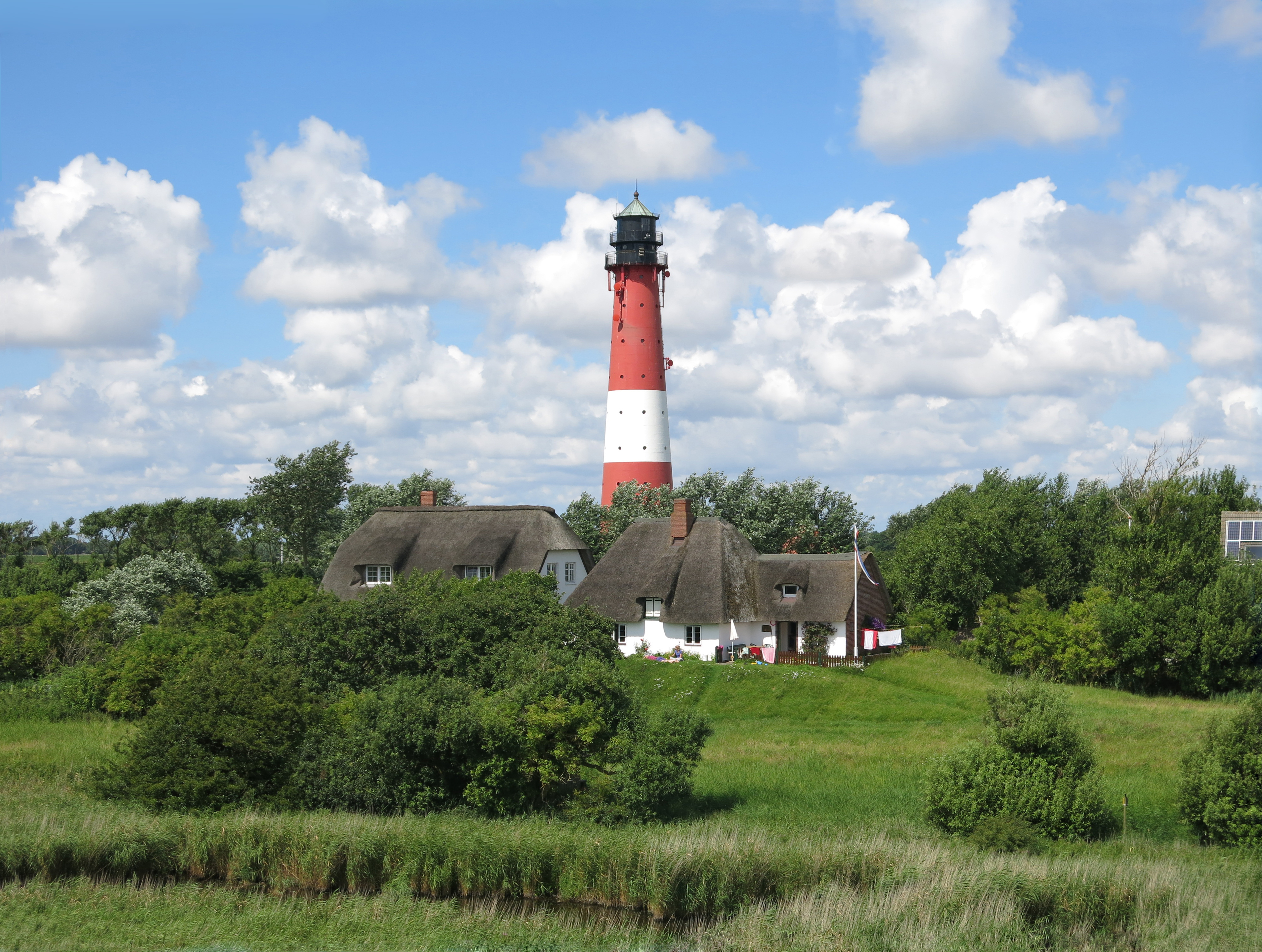 Lihgthouse of Pellworm